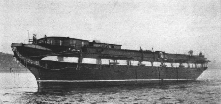 The U.S. Navy sloop-of-war USS Constellation being towed into Boston, Massachusetts (USA), for refitting in 1946. She served as a training ship for the Naval Training Center in Newport, Rhode Island (USA), from 1894 to 1946.